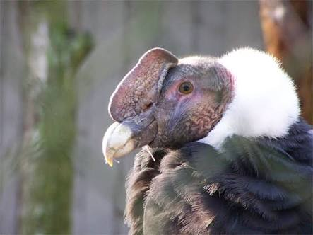 Condor in the Animal Sanctury of Cochahuasi, Pisac, Cusco